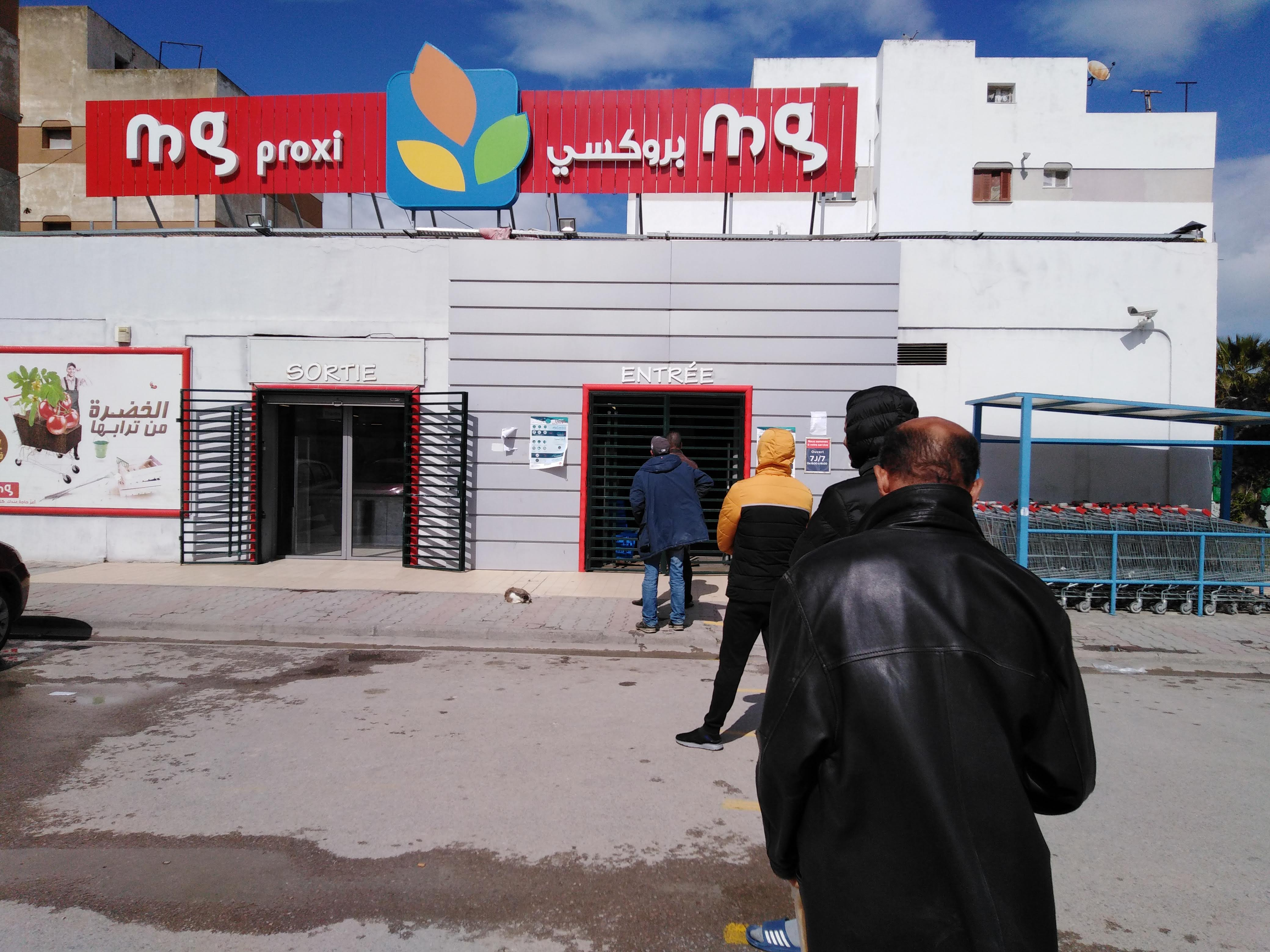 People get in line to get in local grocery, during Covid-19.